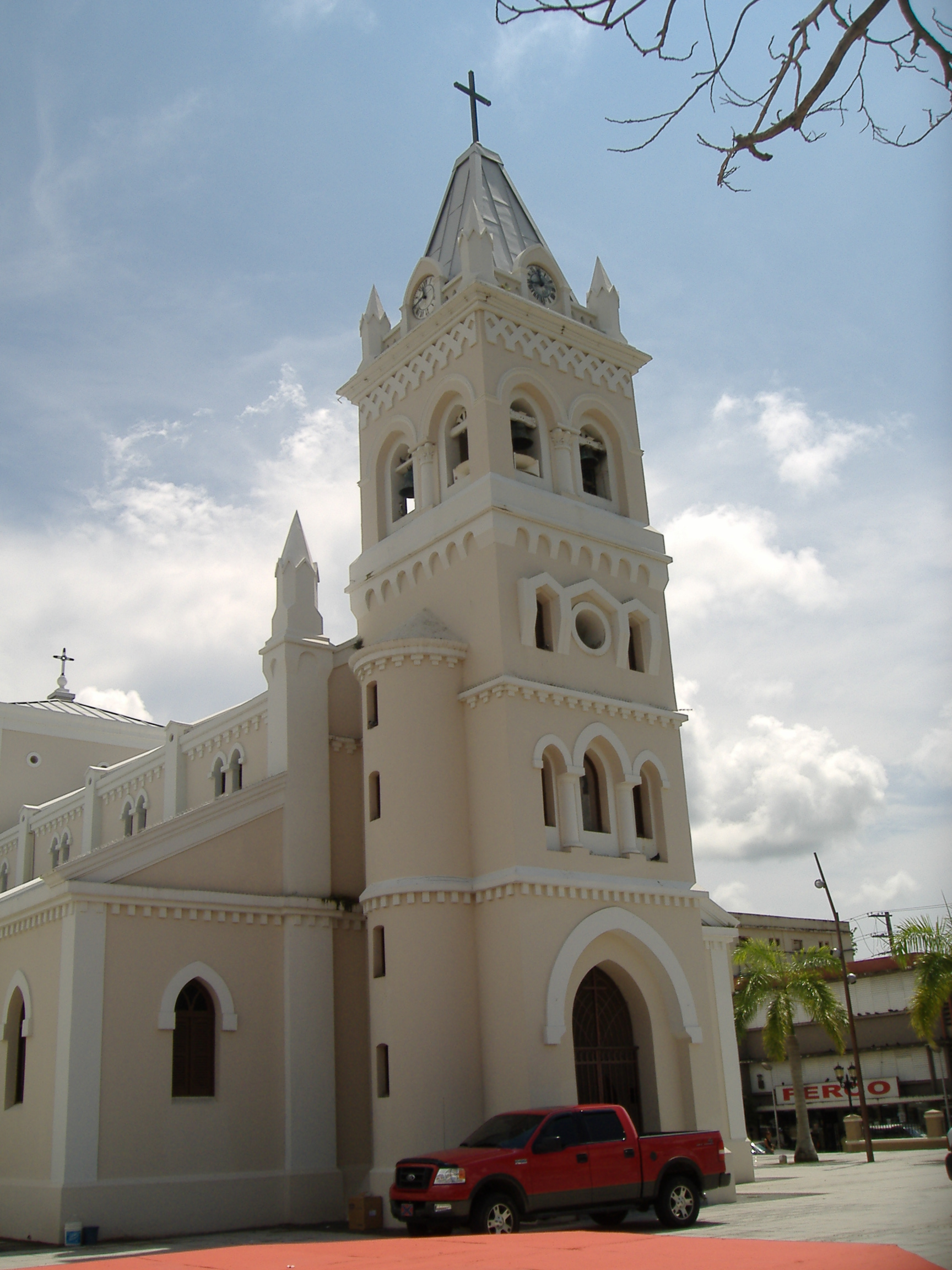 Church in Humacao, Puerto Rico.